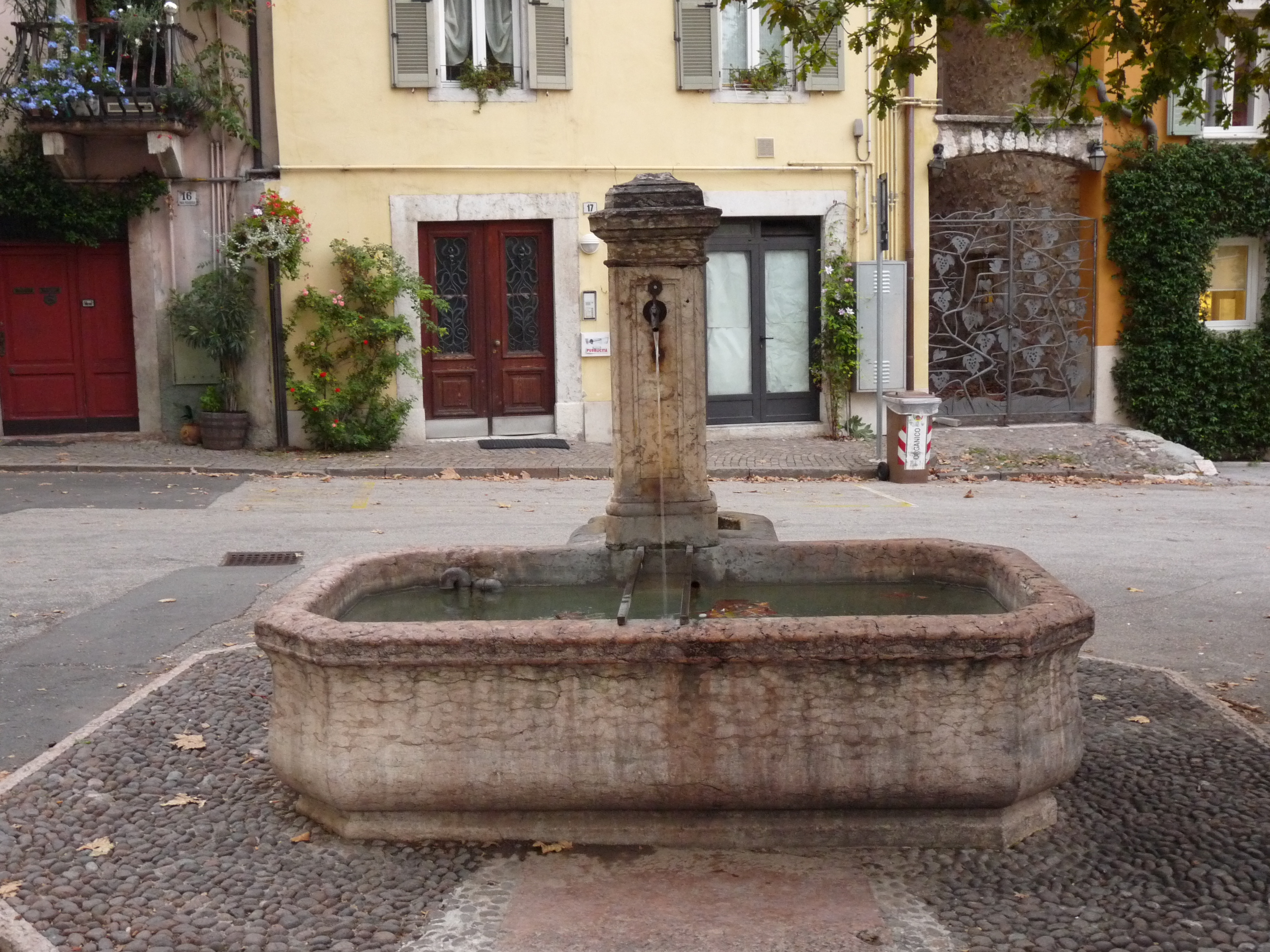 Trento (Italy): fountain in the square of Piedicastello (XIX century) (from south)